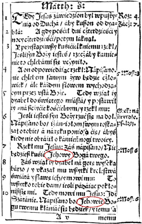 Page of Polish New Testament translated and edited by Szymon Budny (1574). Including God's Name "Jehovah"